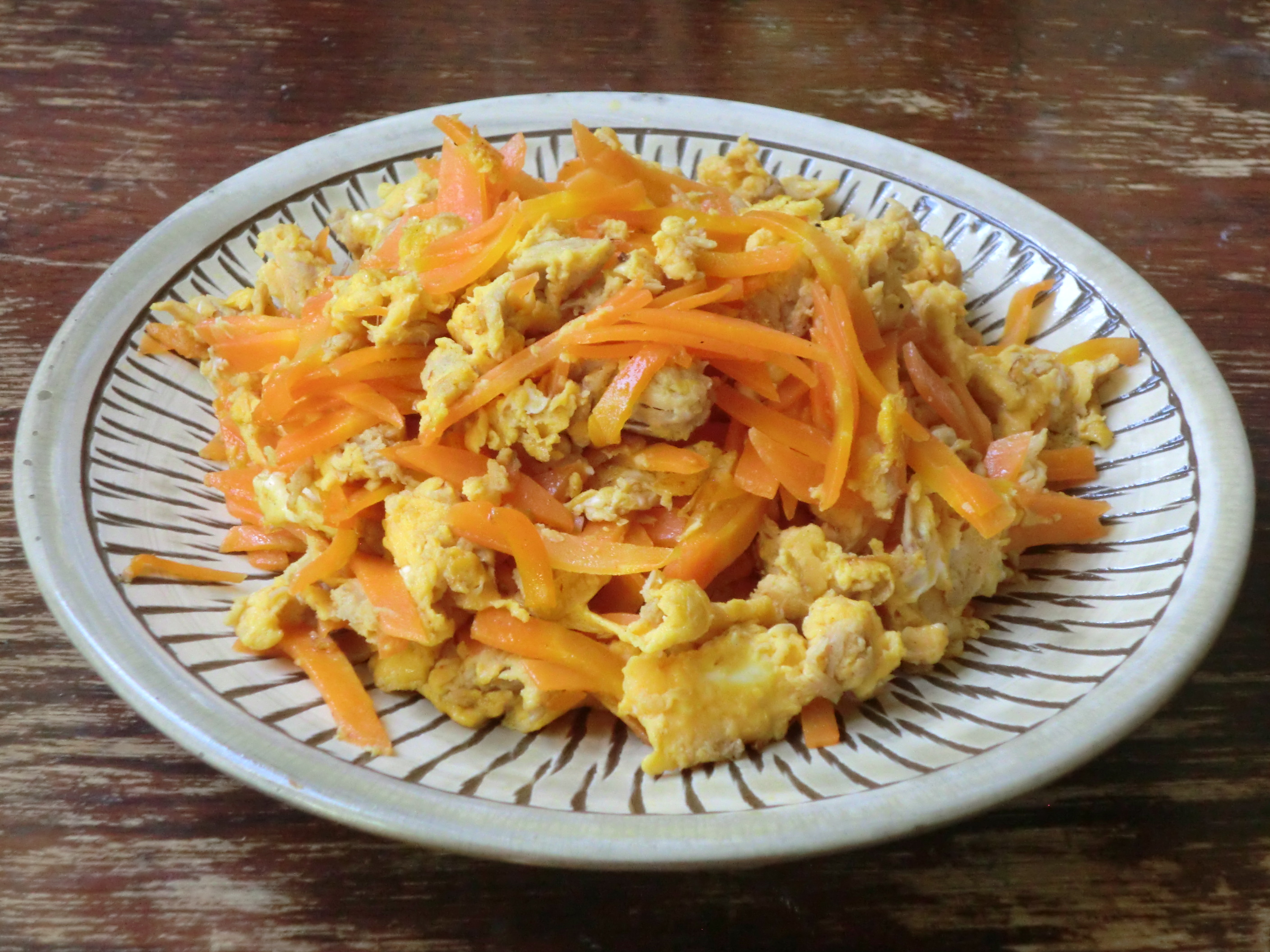 "Ninjin Shirishiri"(stir-fried sliced carrots), local cuisine of Okinawa prefecture, Japan.